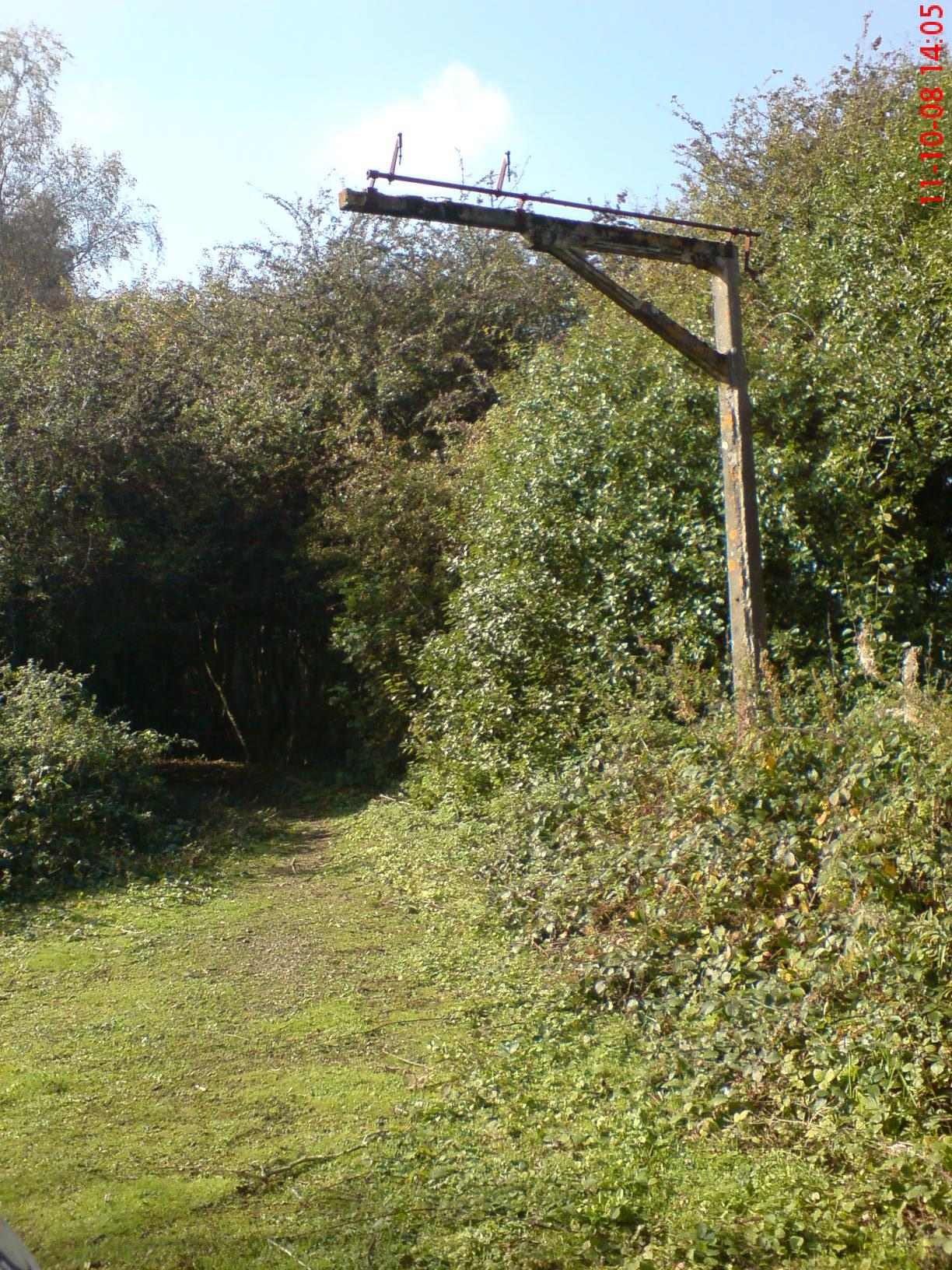 The old loading gauge at the former Mislingford goods yard.